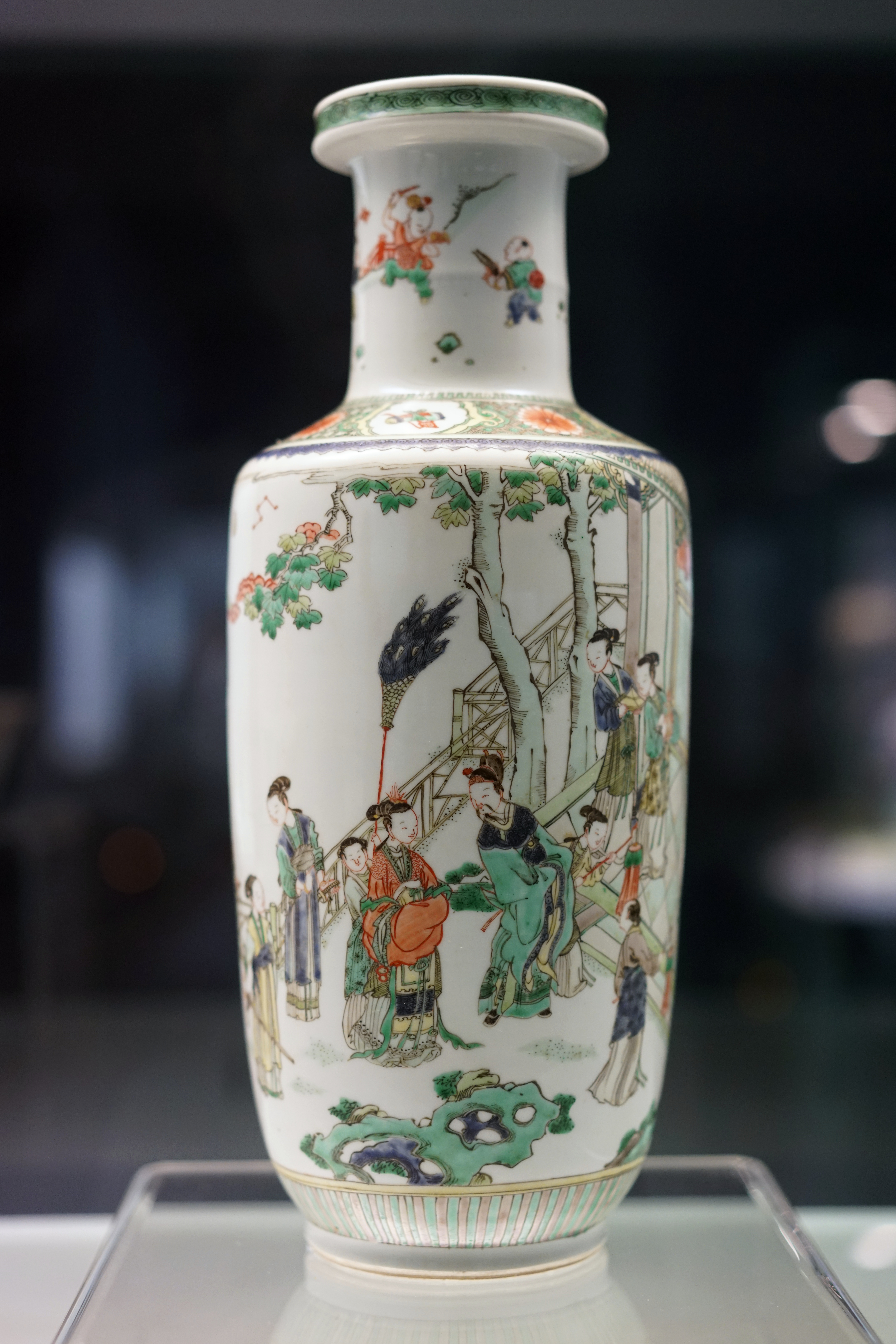 Famille Verte Vase with Design of Liu Bei's Marriage Story, Jingdezhen ware. Kangxi Reign (A.D. 1662 -1722), Qing.